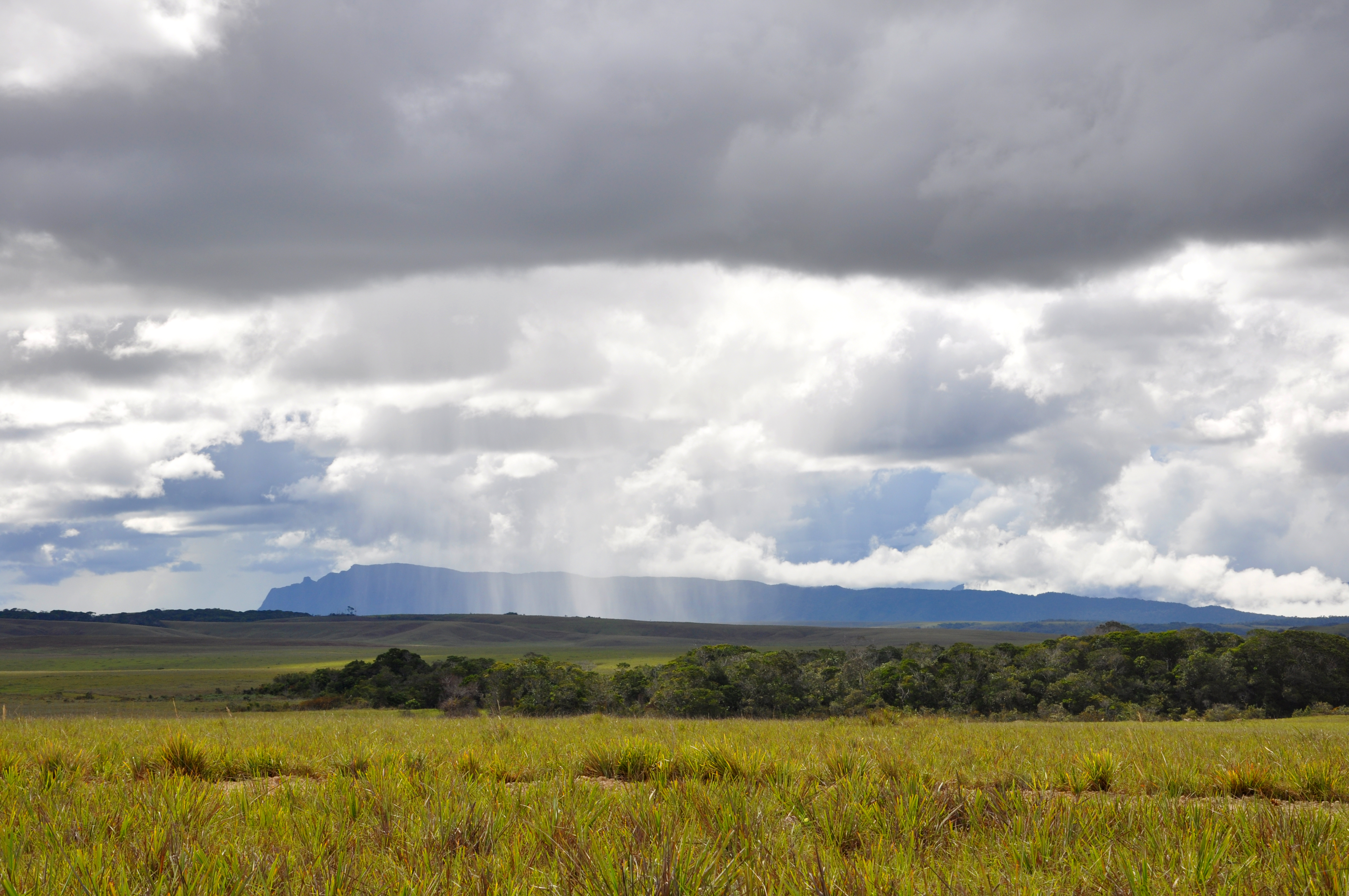 Rain veil in front an inclined tepui, the Sororopán, in Gran Sabana, Venezuela